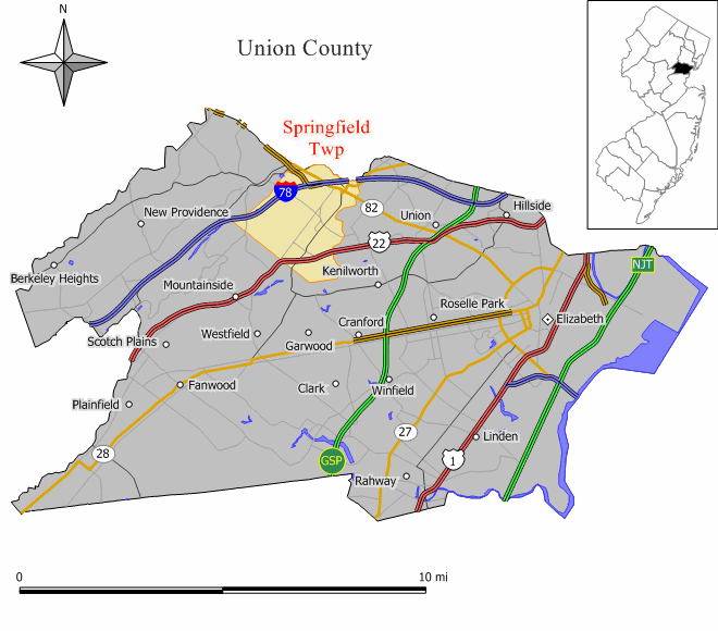 Locator map of in Monmouth County, New Jersey